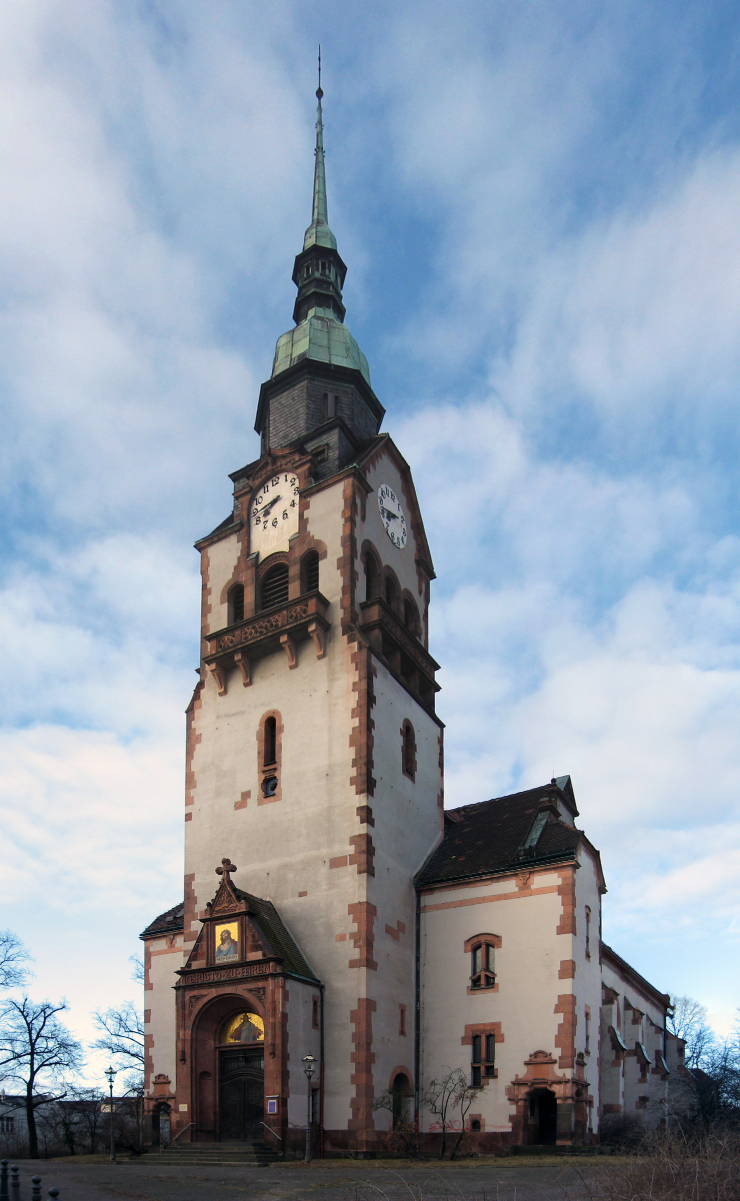 Evangelical Lutheran Paul Gerhardt Church in Leipzig-Connewitz, Selneckerstrasse 5